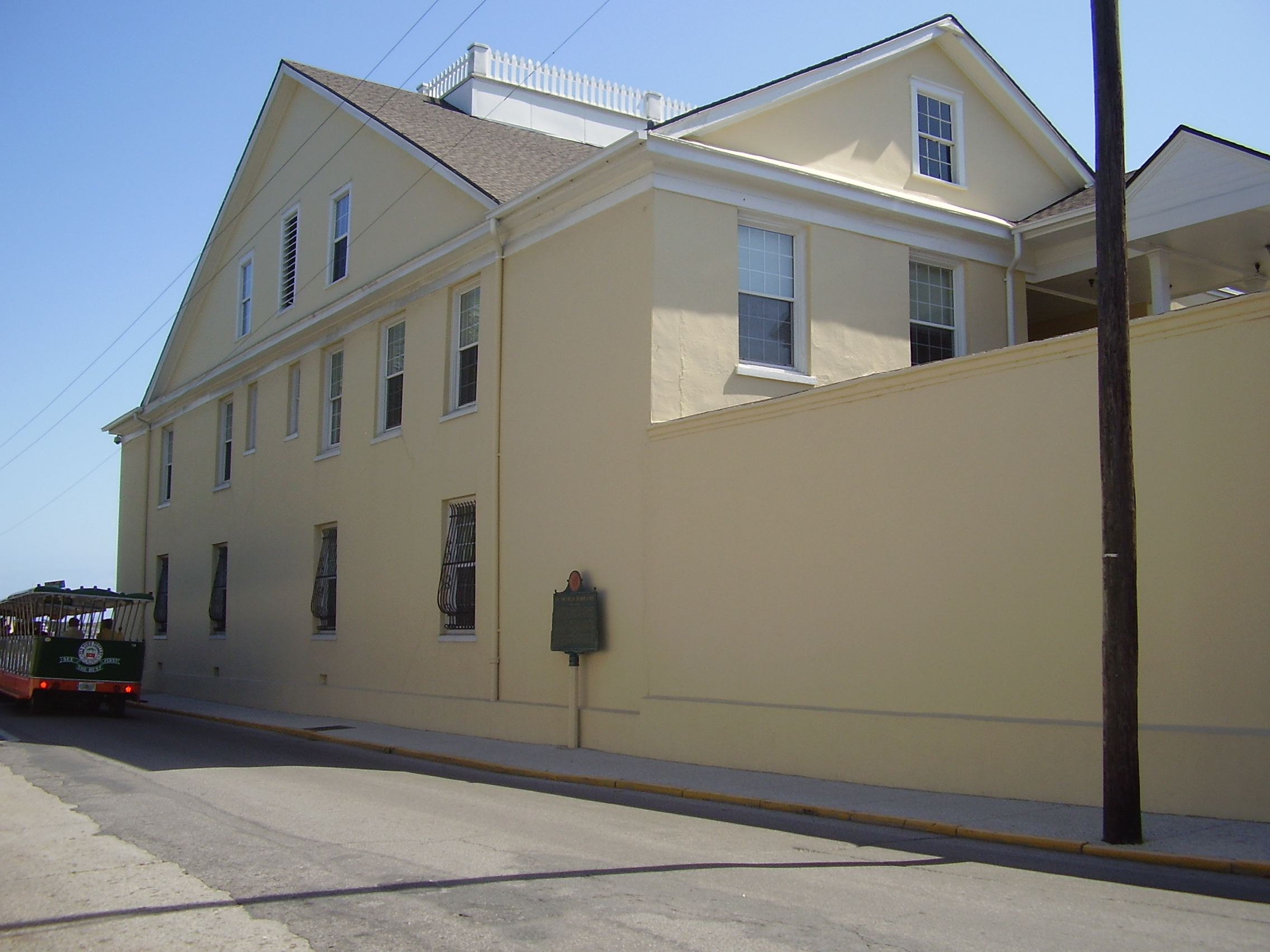 St. Francis Barracks